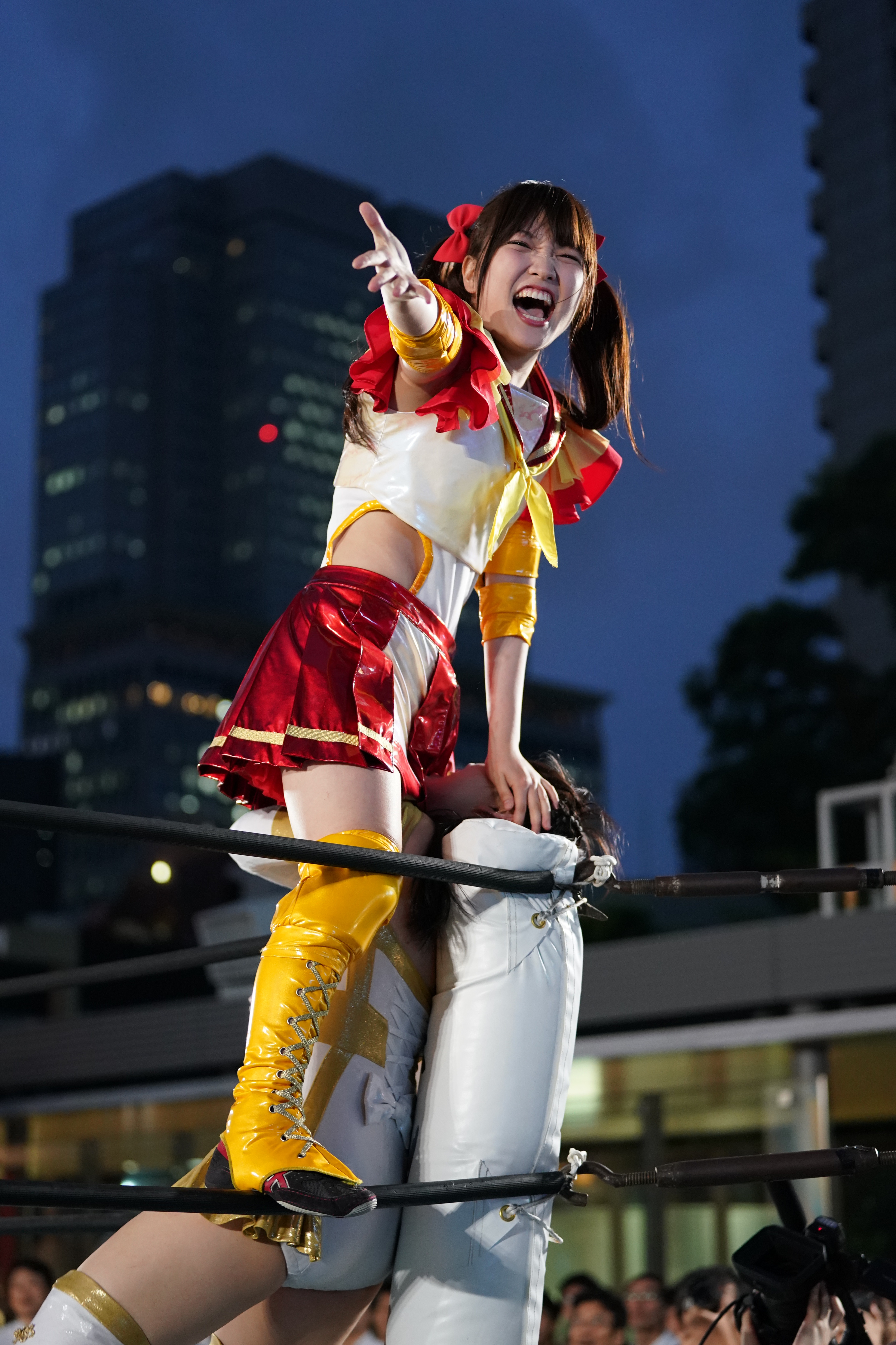 Maki Itoh (July 26, 2017 at Akasaka Sacas)